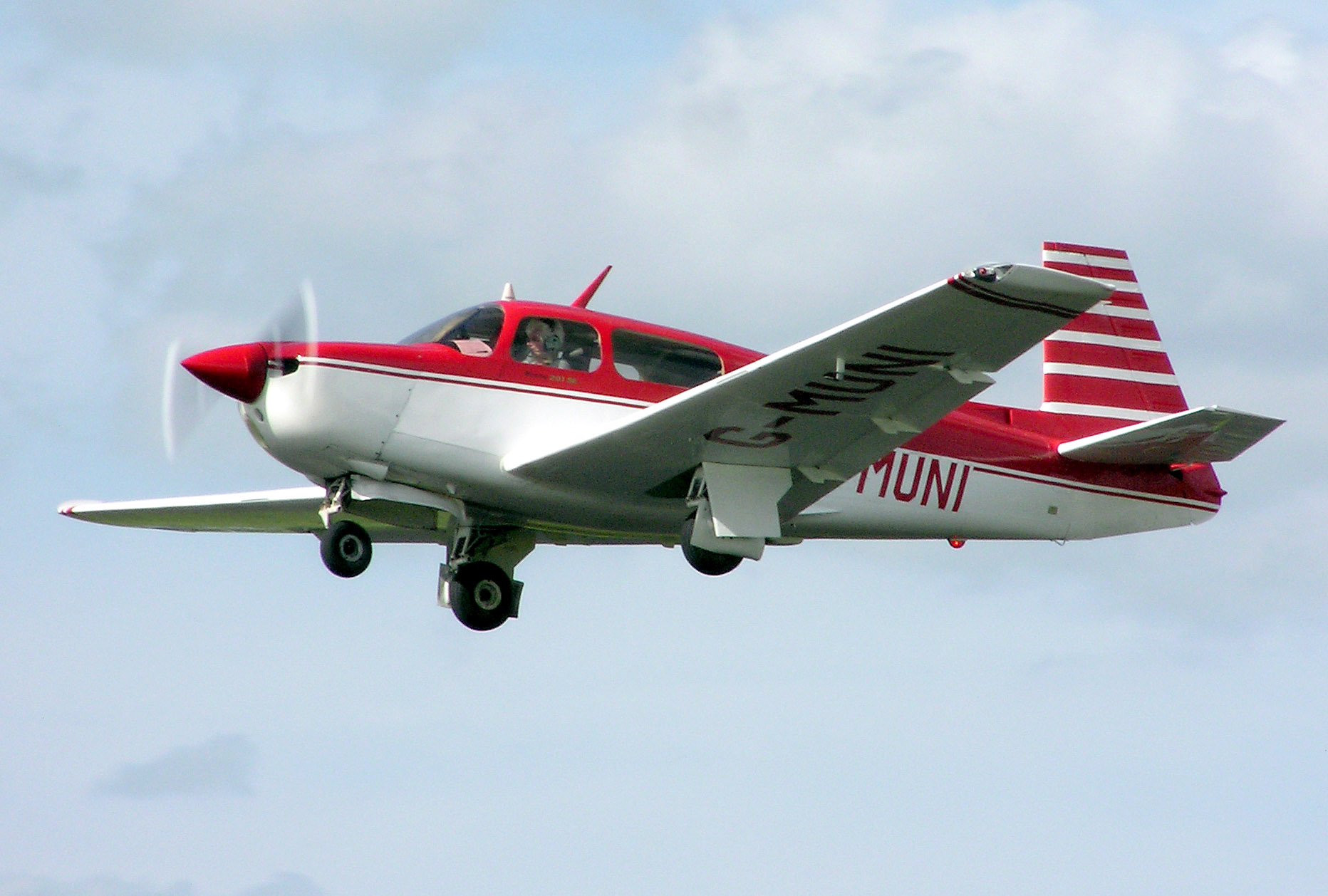 Mooney M20J (UK registration G-MUNI, date of build 1989) at Kemble Airfield, Gloucestershire, England. Photographed by Adrian Pingstone in July 2005 and released to the public domain.